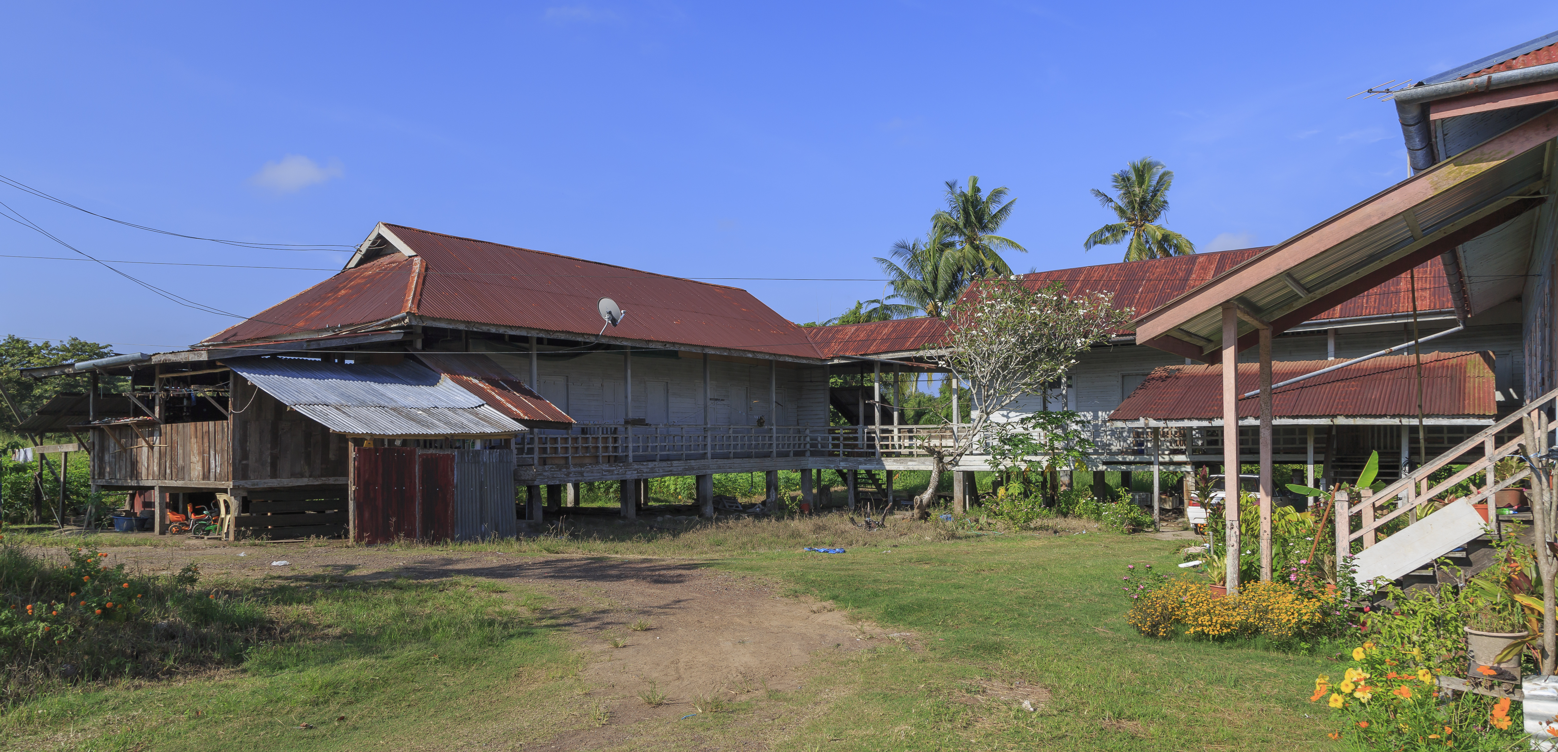 Sikuati, Sabah, Malaysia: The former missinary station pf Basel Mission where the german priest Karl Rennstich worked